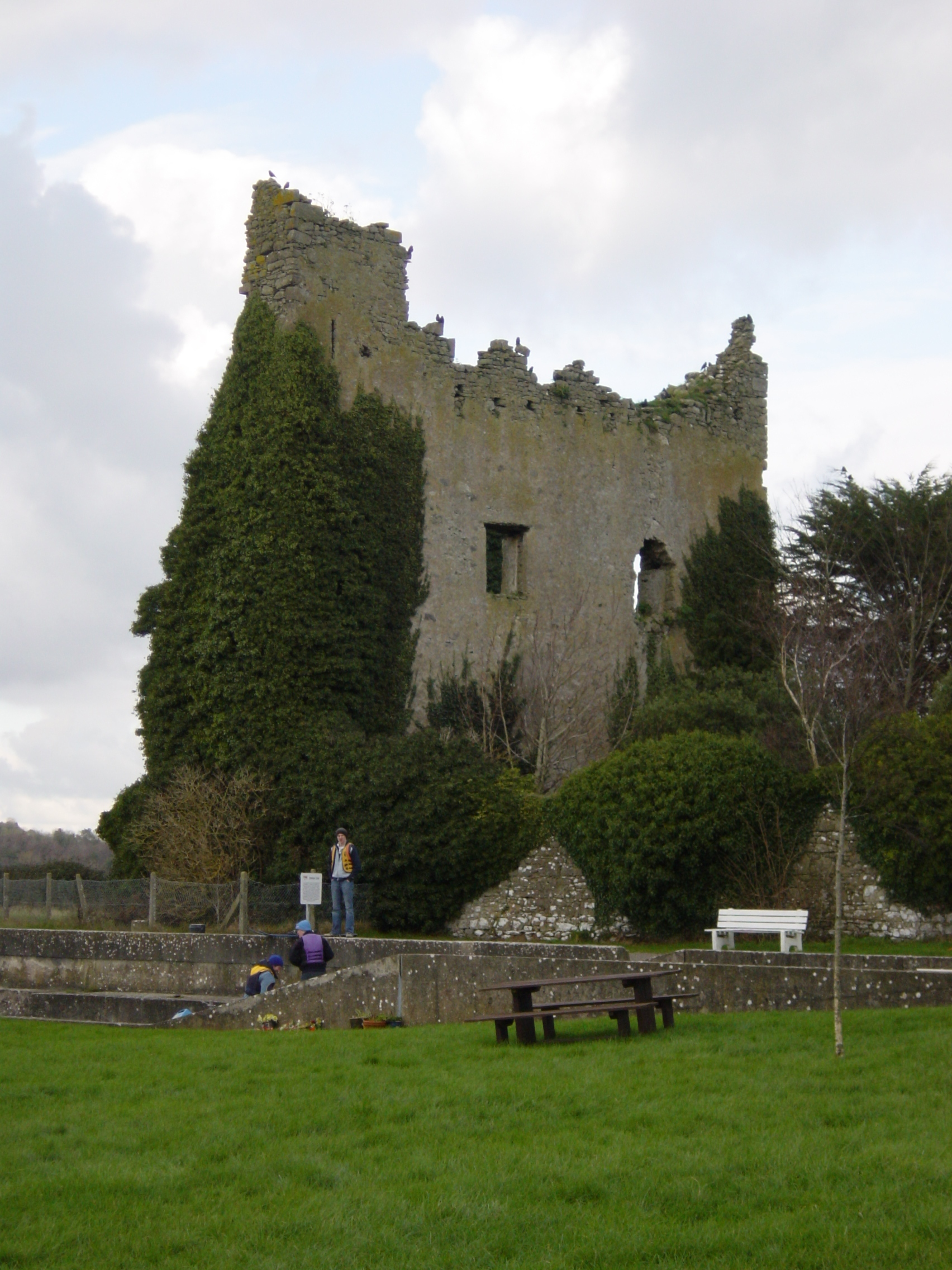 Photo of Dromineer Castle